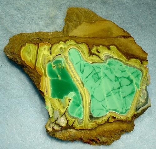 Variscite, Crandallite Locality: Little Green Monster Variscite Mine, Clay Canyon, Fairfield, Oquirrh Mts, Utah County, Utah, USA (Locality at ) Size: 7.8 x 7.3 x 0.4 cm. A gorgeous slab, polished on both sides, with very intricate patterns of the green and yellow phosphates, variscite and crandallite from the famous Utah locality of the Little Green Monster Variscite Mine. The yellow crandallite surrounding the variscite has exceptional banding. There is also a bit of white wardite.